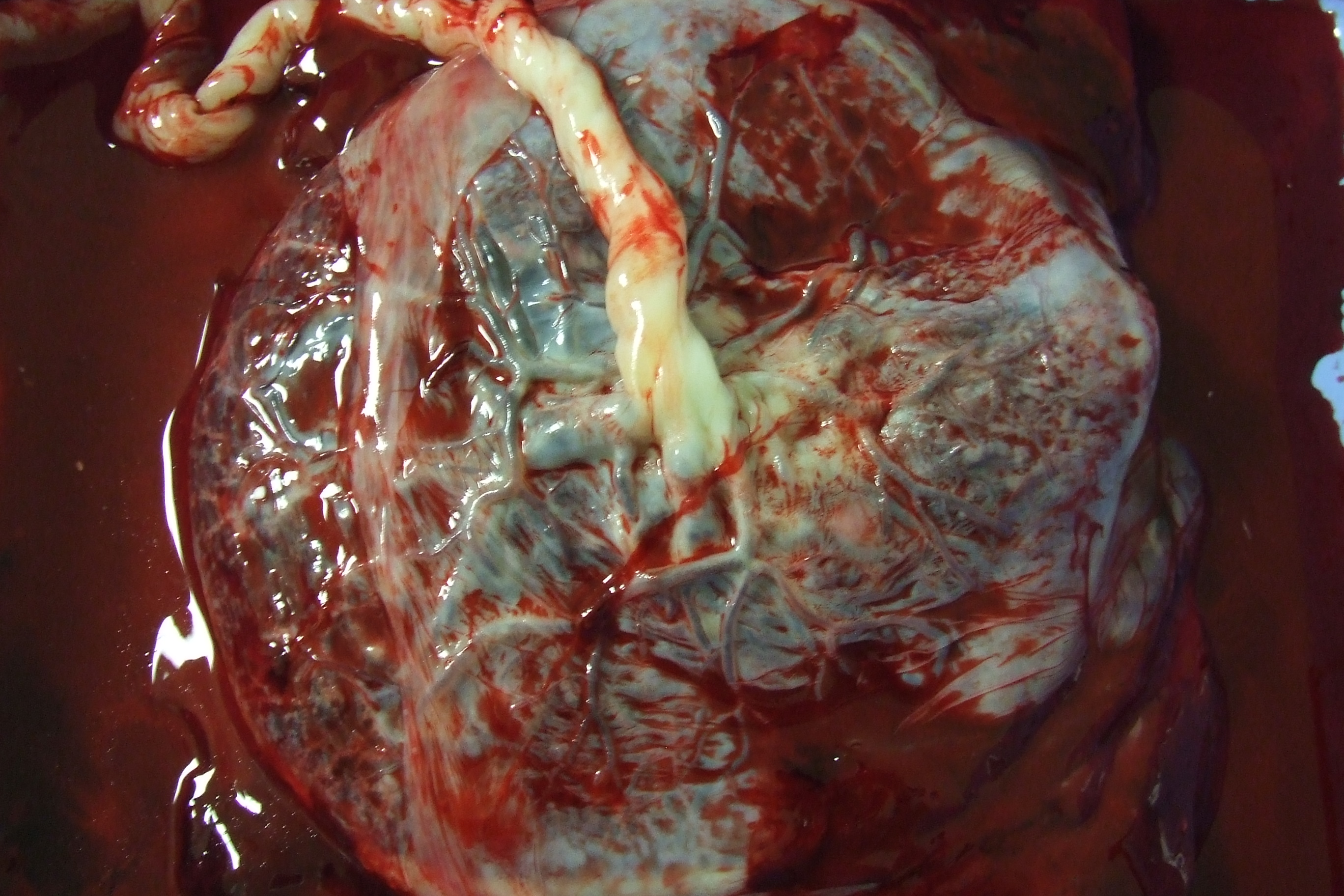 human placeta with umbillical cord